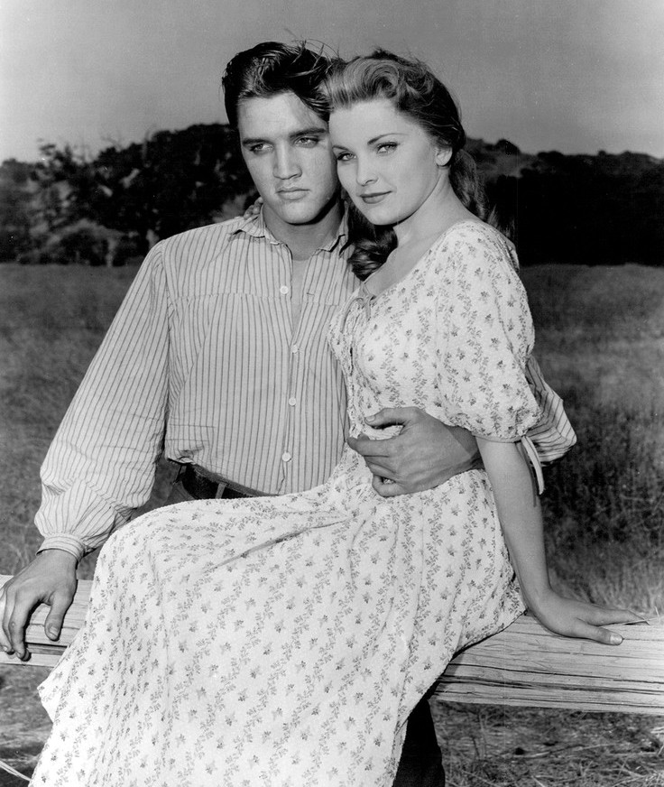 Photo of Elvis Presley and Deborah Paget from the 1957 film Love Me Tender.